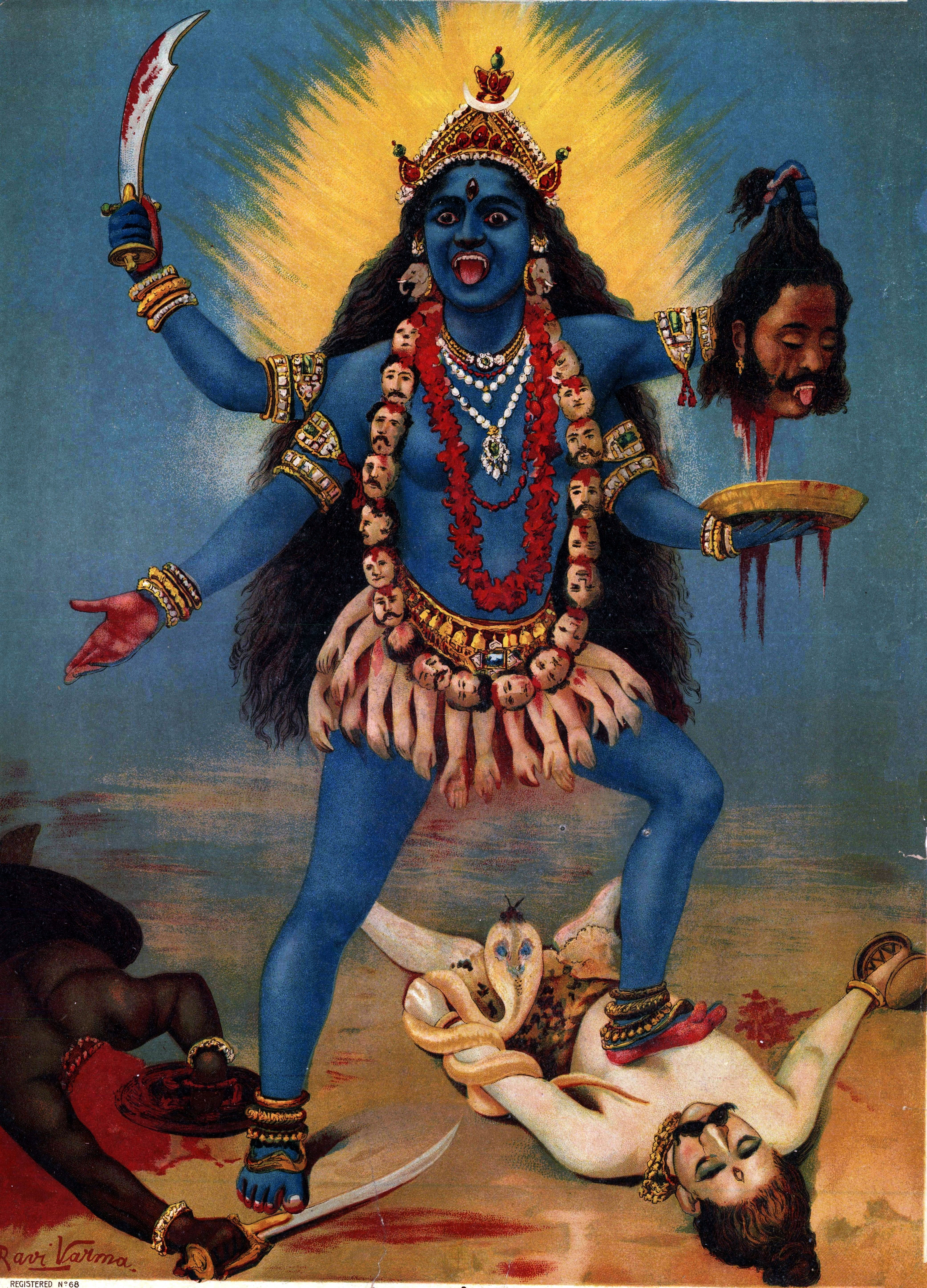 Kali trampling Shiva. Chromolithograph by R. Varma.